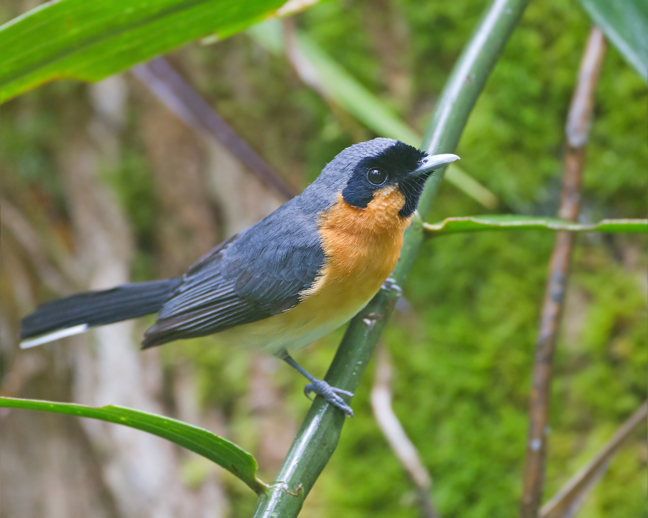 Spectacled Monarch (Monarcha trivirgatus) near Thornton Beach, Daintree, Queensland Australia